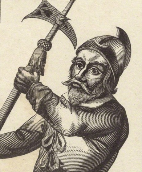 after Unknown artist, woodcut, late 18th century